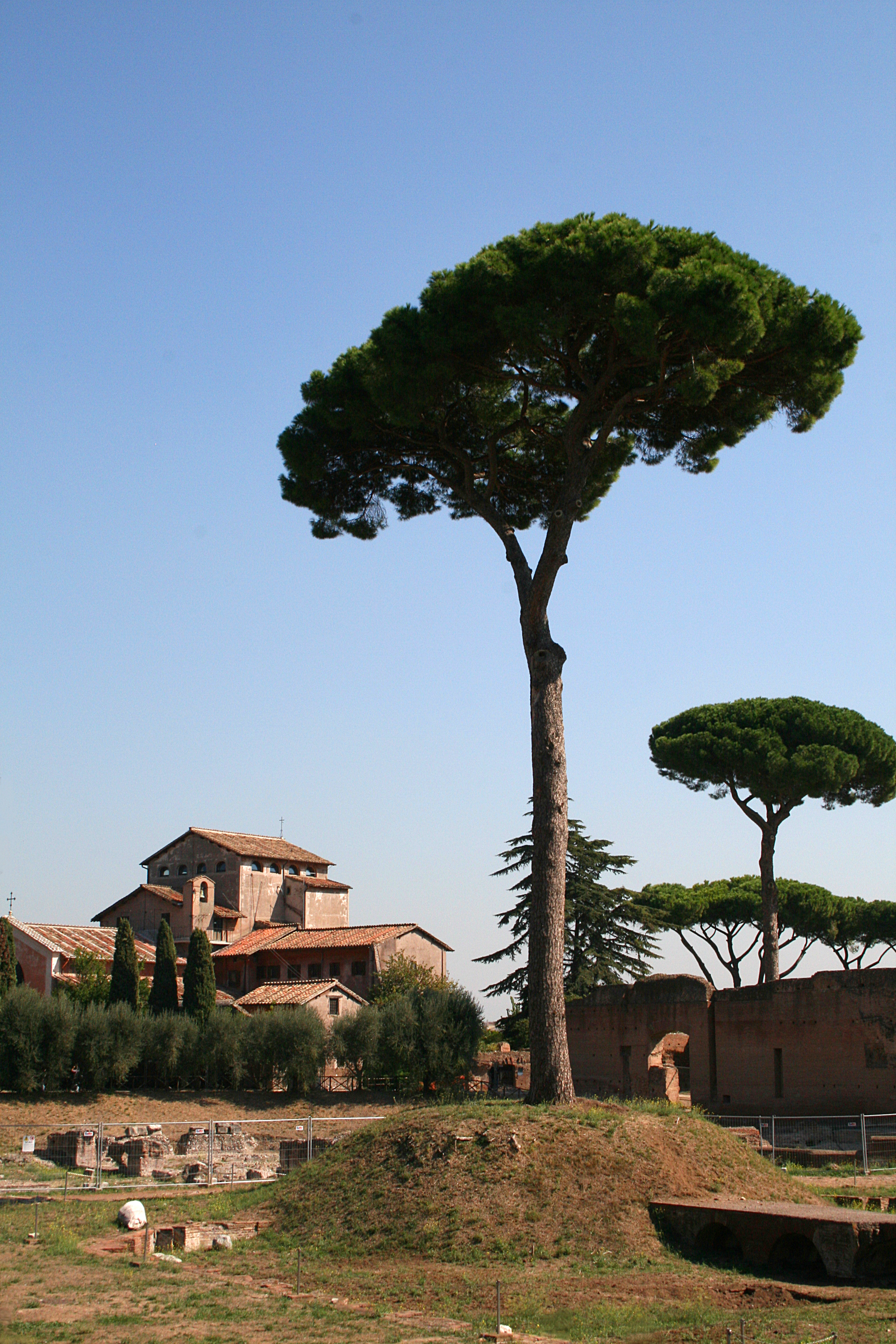 The church of San Bonaventura (1625) al Palatino located on the highest peak of the Palatine Hill. - Spanish Franciscan Convent in Rome.